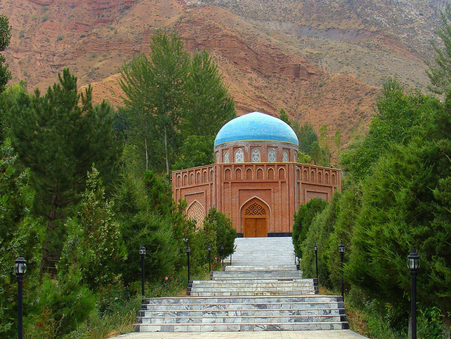 Rudaki Tomb in Panjkent, after restored.